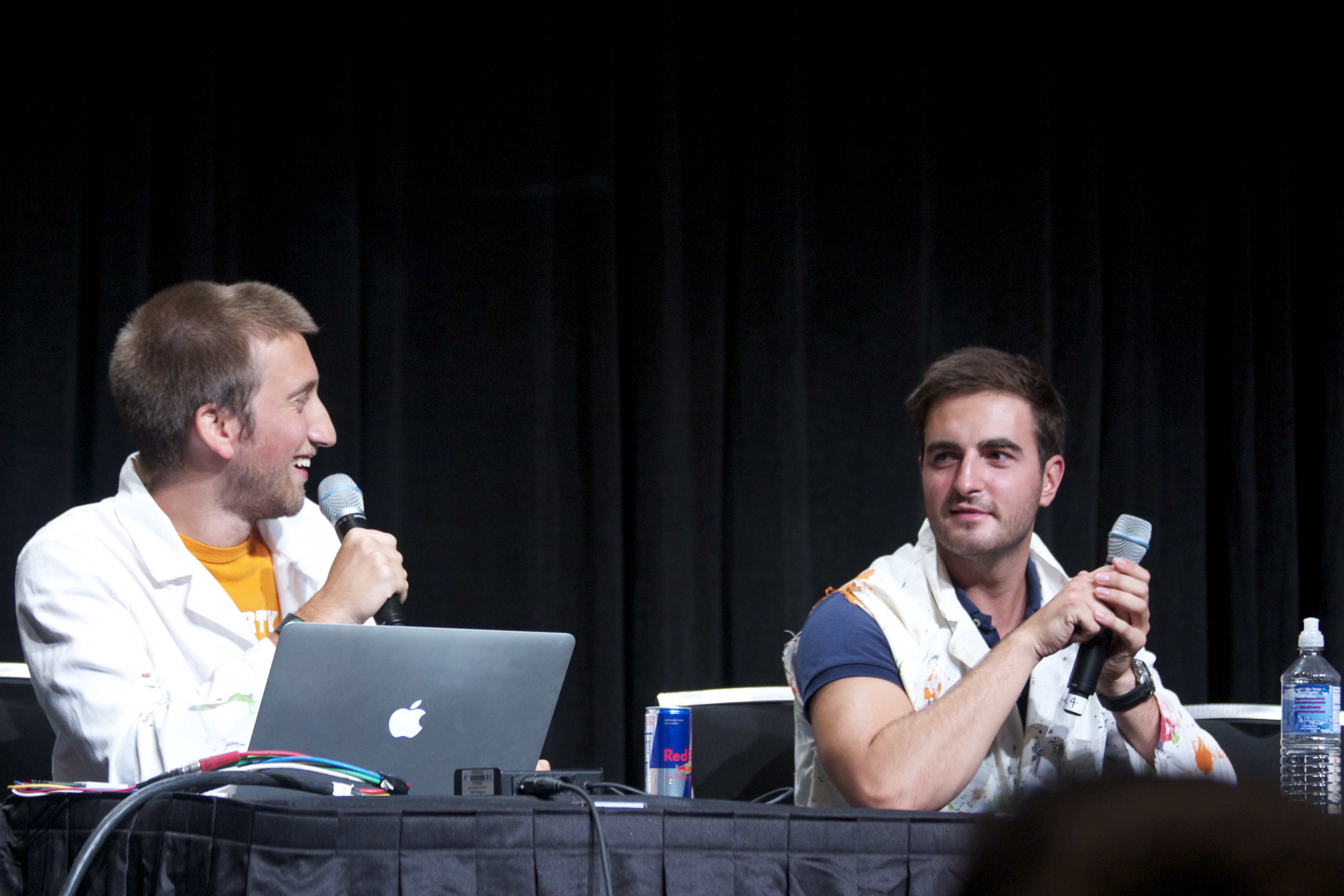 Gavin Free and Dan Gruchy - The Slow Mo Guys